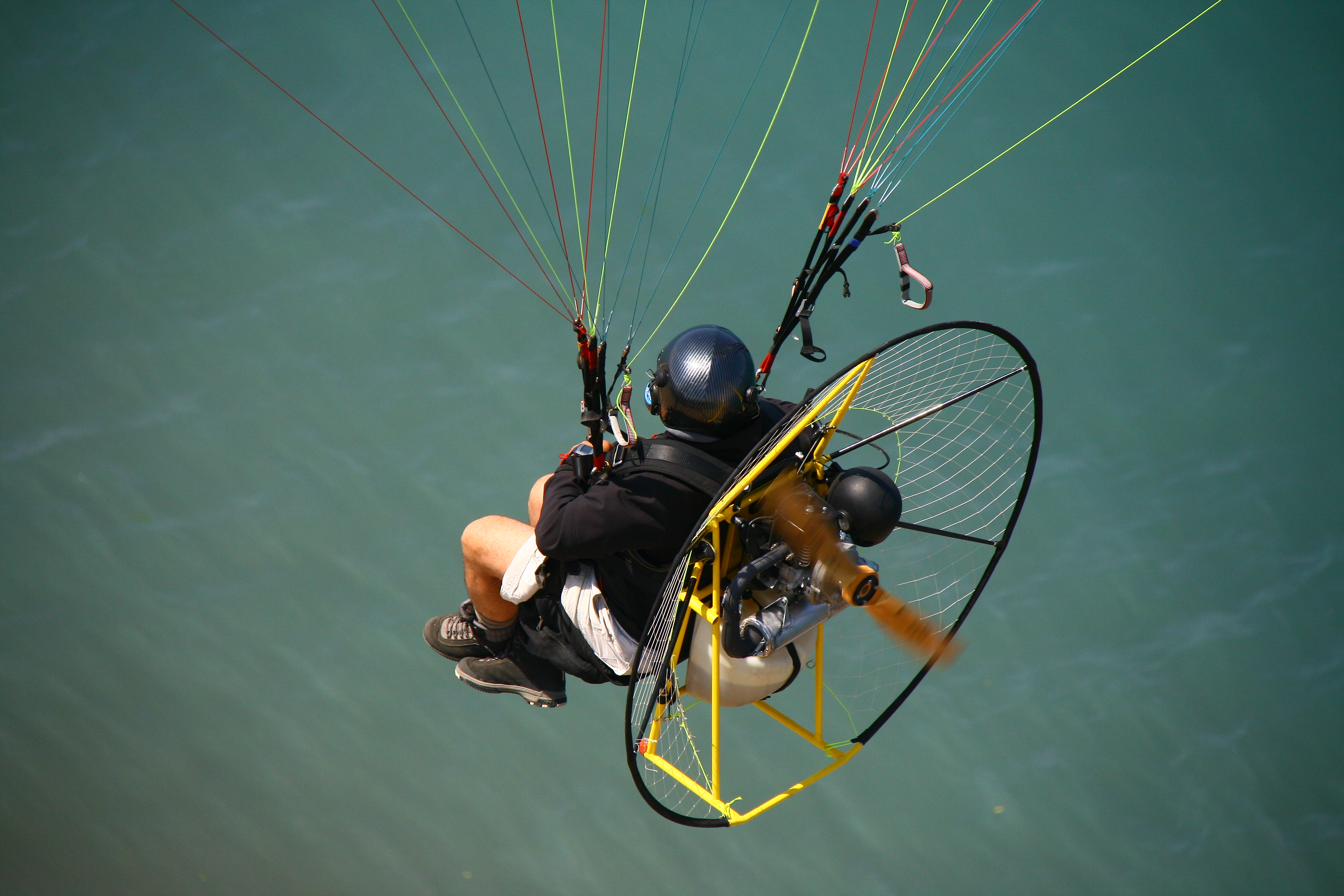 At west coast